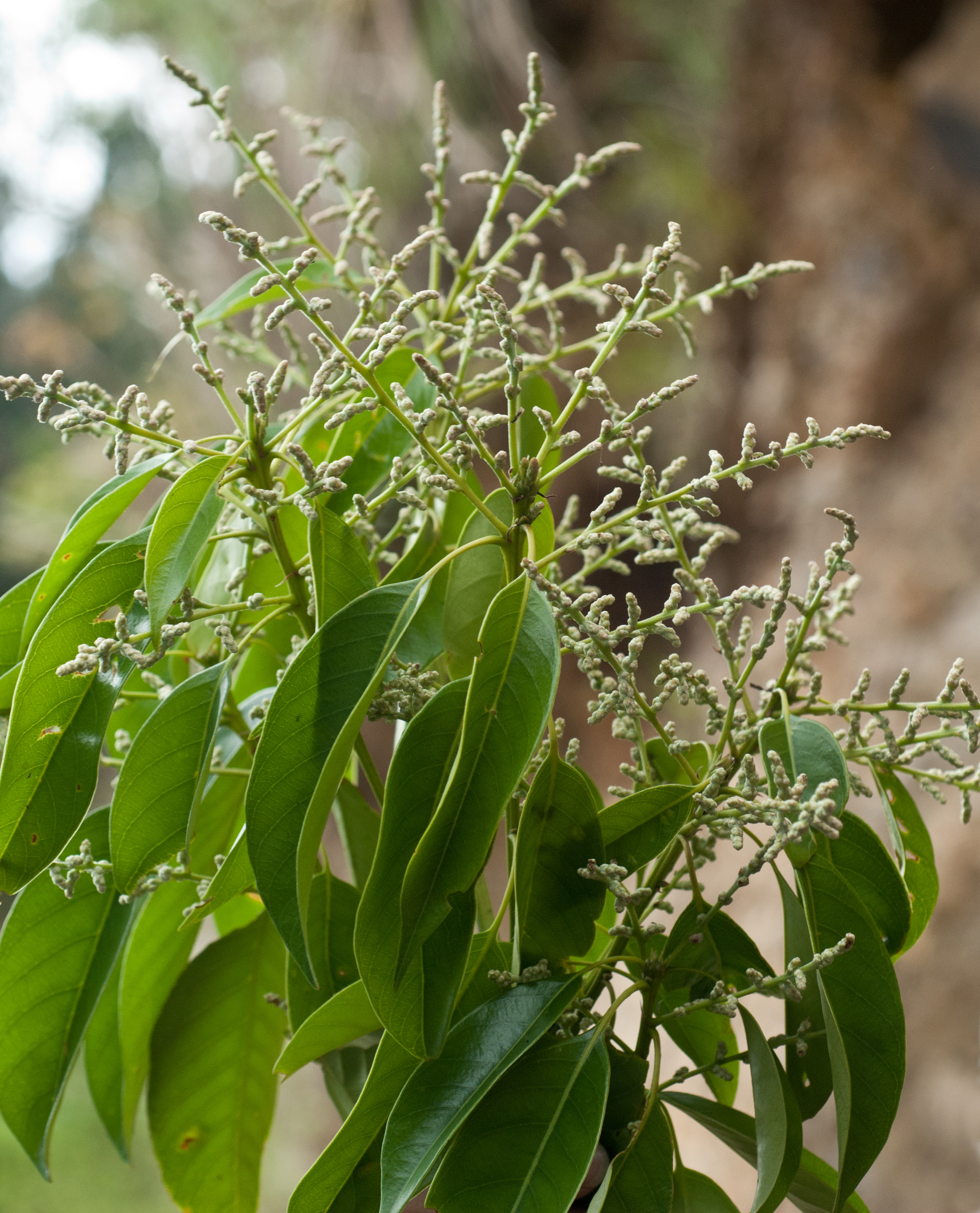 Jian-Shih, Hsinchu Co., Taiwan.